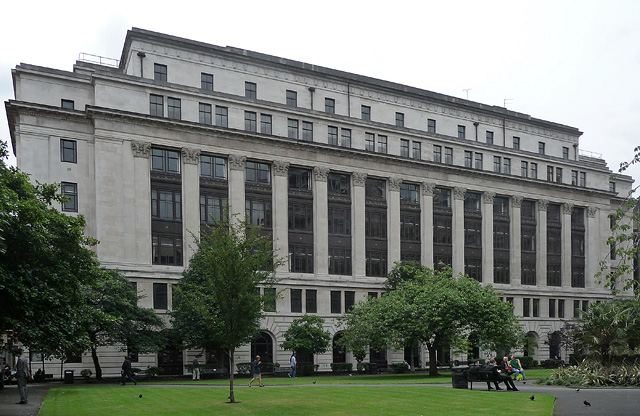 A Portland stone building with a numerous giant Corinthian columns. Built 1928 by local architect Harry S. Fairhurst. Grade II listed. In front is Parsonage Gardens, originally the site of St Mary's church, demolished in 1928.